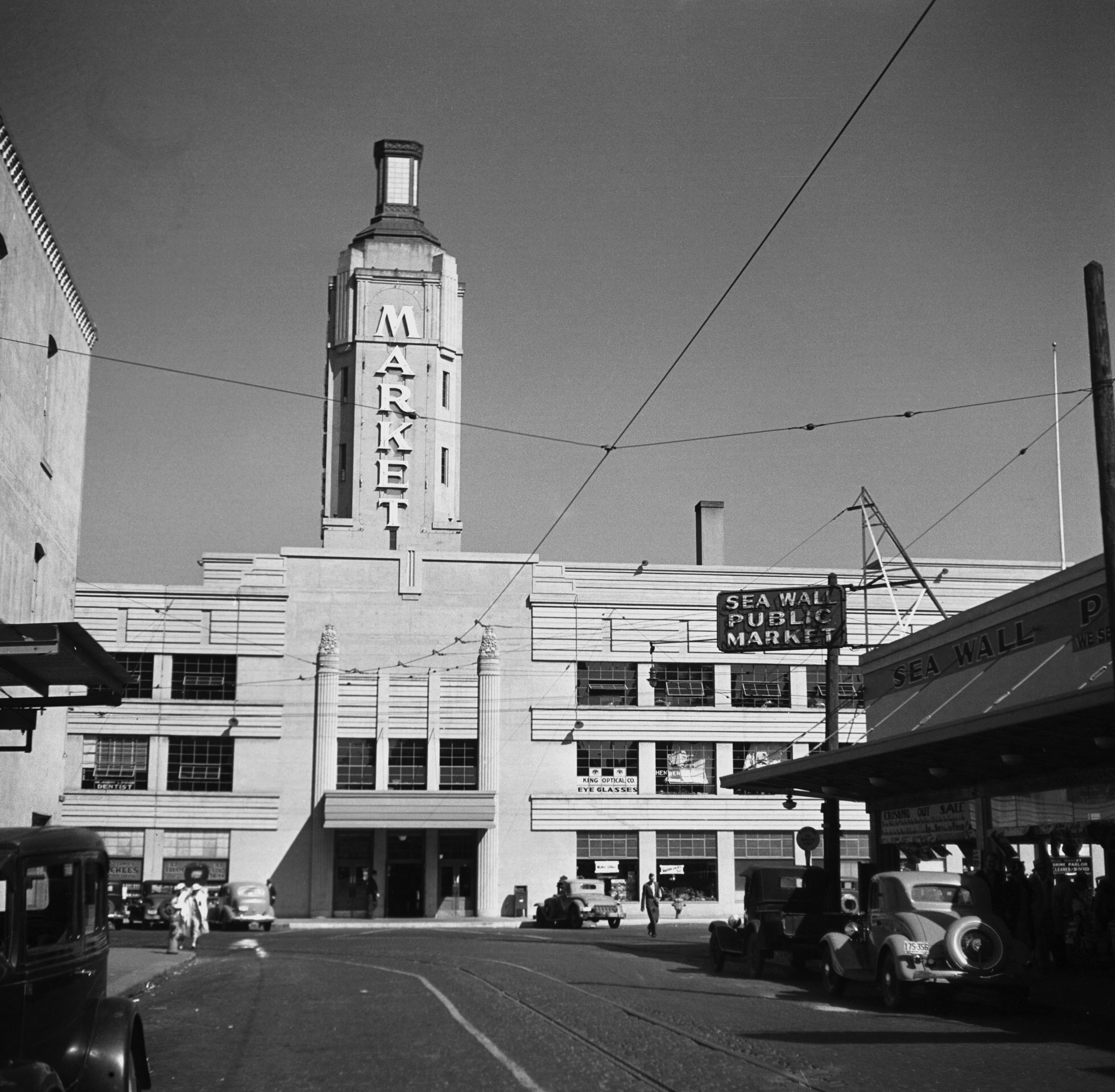 "Public market at Portland, Oregon". Photo by the famous Arthur Rothstein. Unknown market building and location. CREATED/PUBLISHED 1936 July. NOTES Title and other information from caption card. Transfer; United States. Office of War Information. Overseas Picture Division. Washington Division; 1944. CALL NUMBER LC-USF34- 005146-E REPRODUCTION NUMBER LC-DIG-fsa-8b28135 DLC (digital file from original neg.) LC-USF34-005146-E DLC (b&w film nitrate neg.) Digital ID: fsa 8b28135